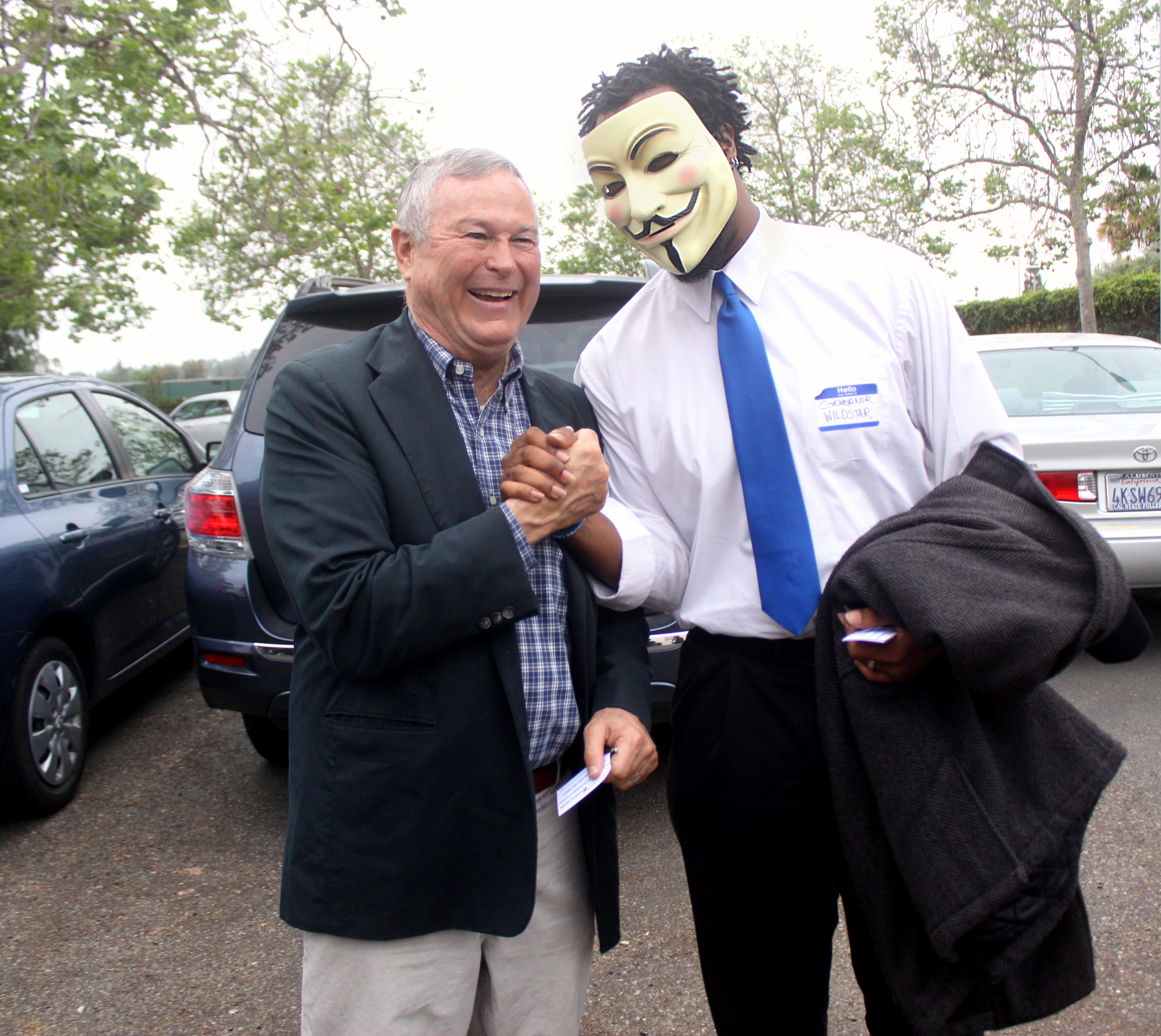 at the 2013 California Young Americans for Liberty State Convention in Fullerton, California